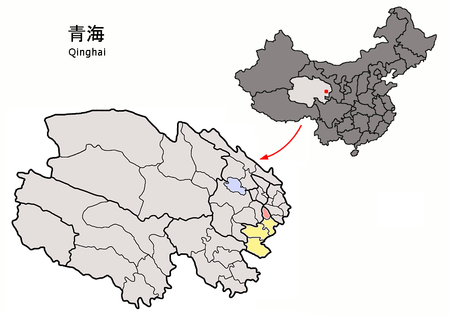 Location of Jainca County (pink) and Huangnan Prefecture (yellow) within Qinghai province of China Map drawn in september 2007 using various sources, mainly : Qinghai province administrative regions GIS data: 1:1M, County level, 1990 Qinghai Counties map from "Plateau Perspectives" (the limits of some county-level subdivisions may not be accurate)